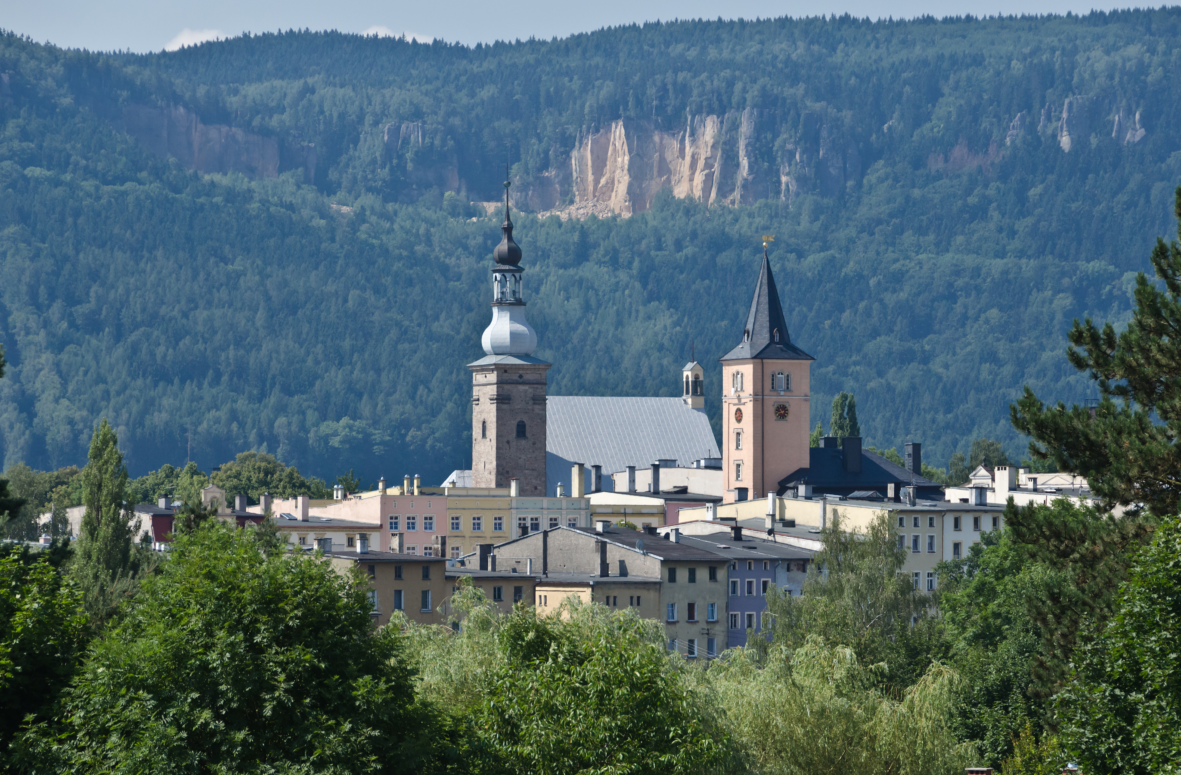 Historic center of Radków